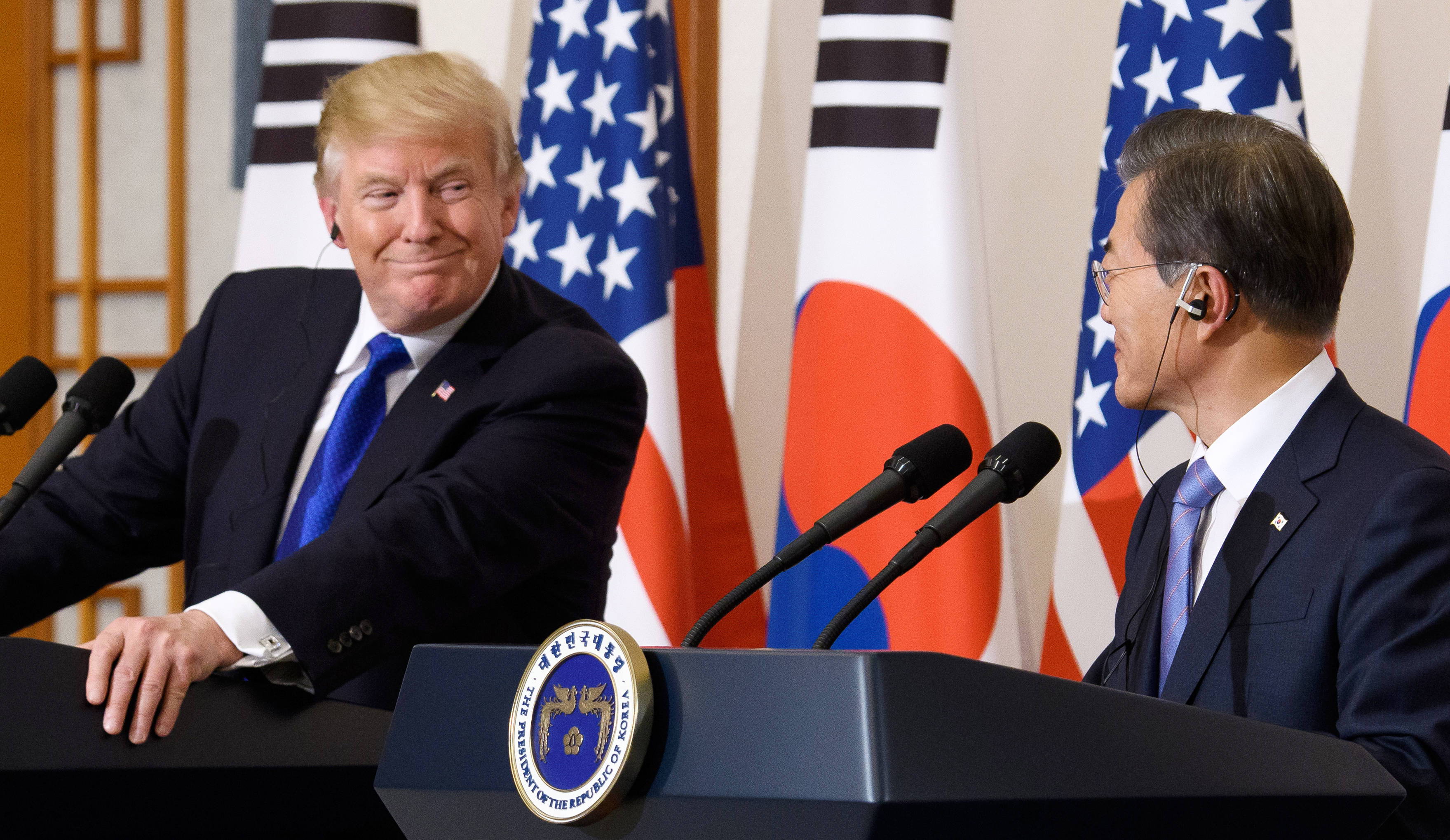 U.S. President Donald John Trump visits to Cheong Wa Dae